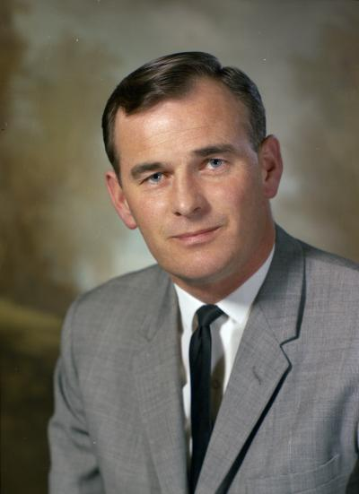 Representative Duane Berentson, 1967